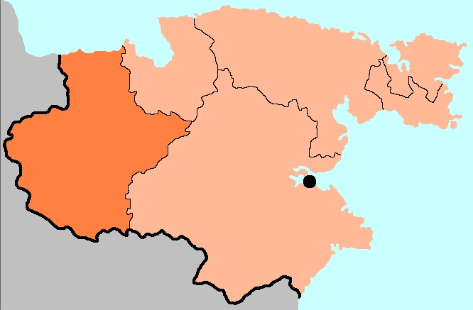 Location of the Bilibinsky District (rayon) within the Russian autonomous district (okrug) Chukotka. Grey dot indicates the autonomous district's capital Anadyr.